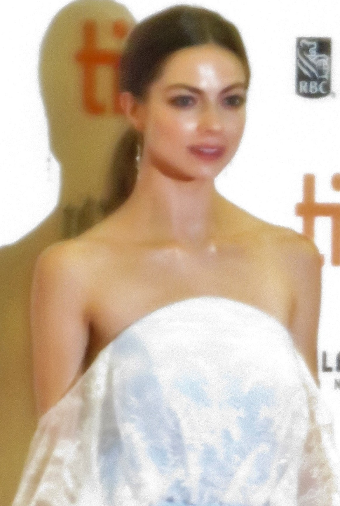 Caitlin Carver at the premiere of I Tonya, 2017 Toronto Film Festival